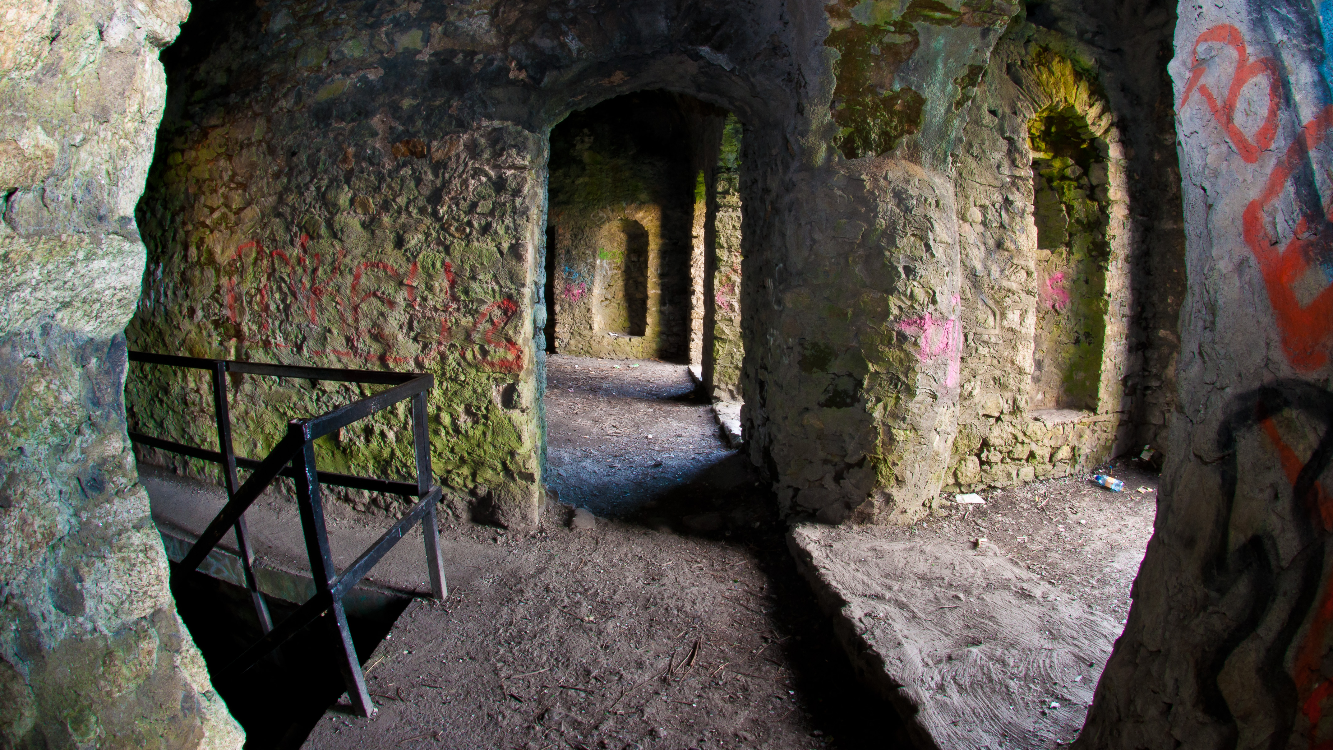 The entrance hall on the upper floor of the Hell Fire Club on Montpelier Hill, Dublin, Ireland